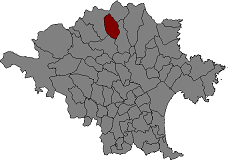 Location of Cantallops in Alt Empordà